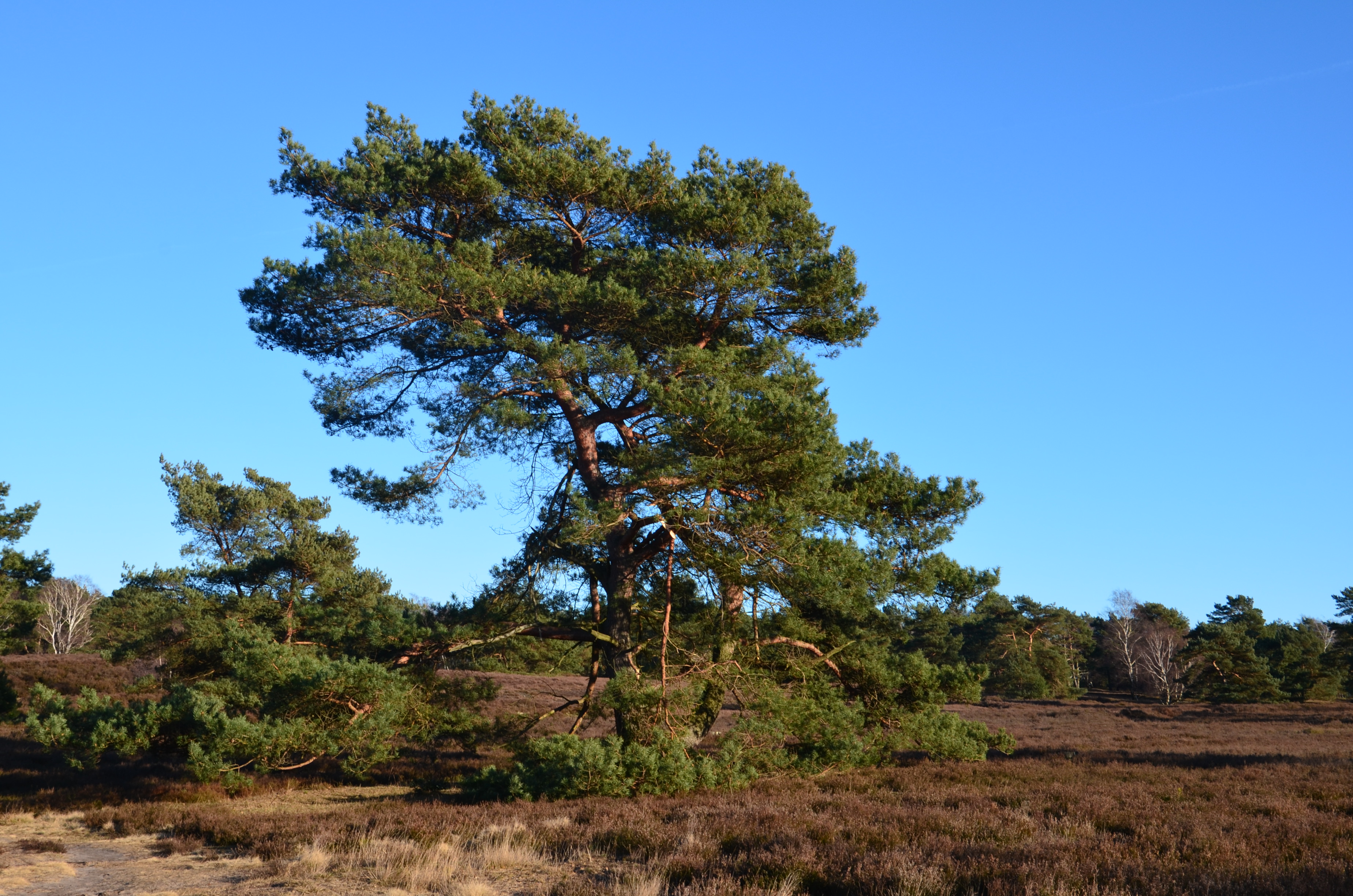 "Fischbeker Heide" Nature Reserve in Hamburg, Germany